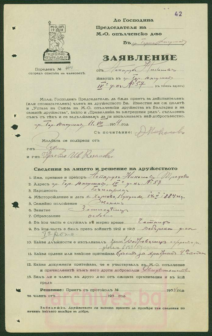 Asparuh_Trokov's Document